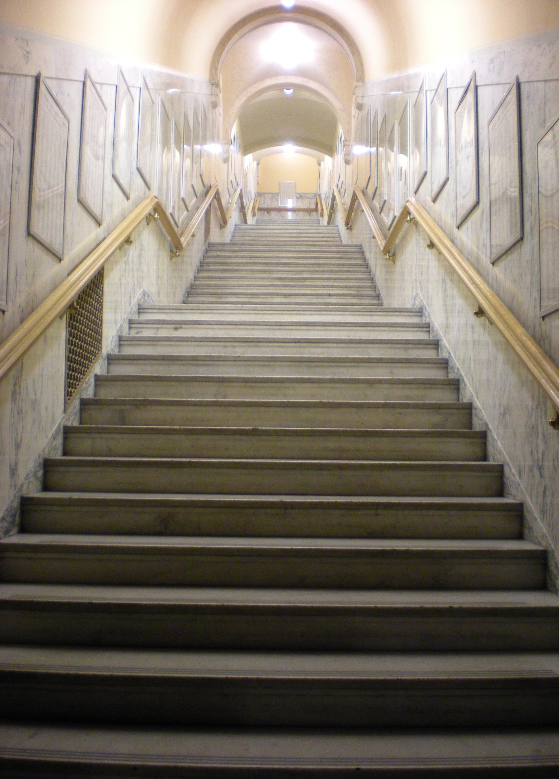 Indiana World War Memorial Plaza